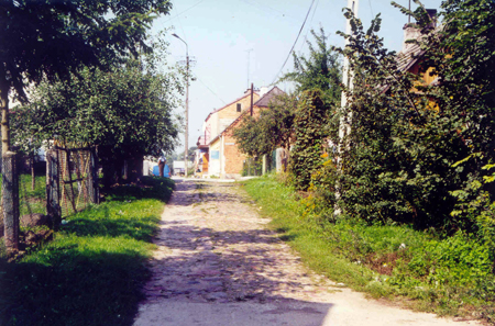 The street in Wizna where the synagogue, the Cheder, and the Tarbut Hebrew school were located.